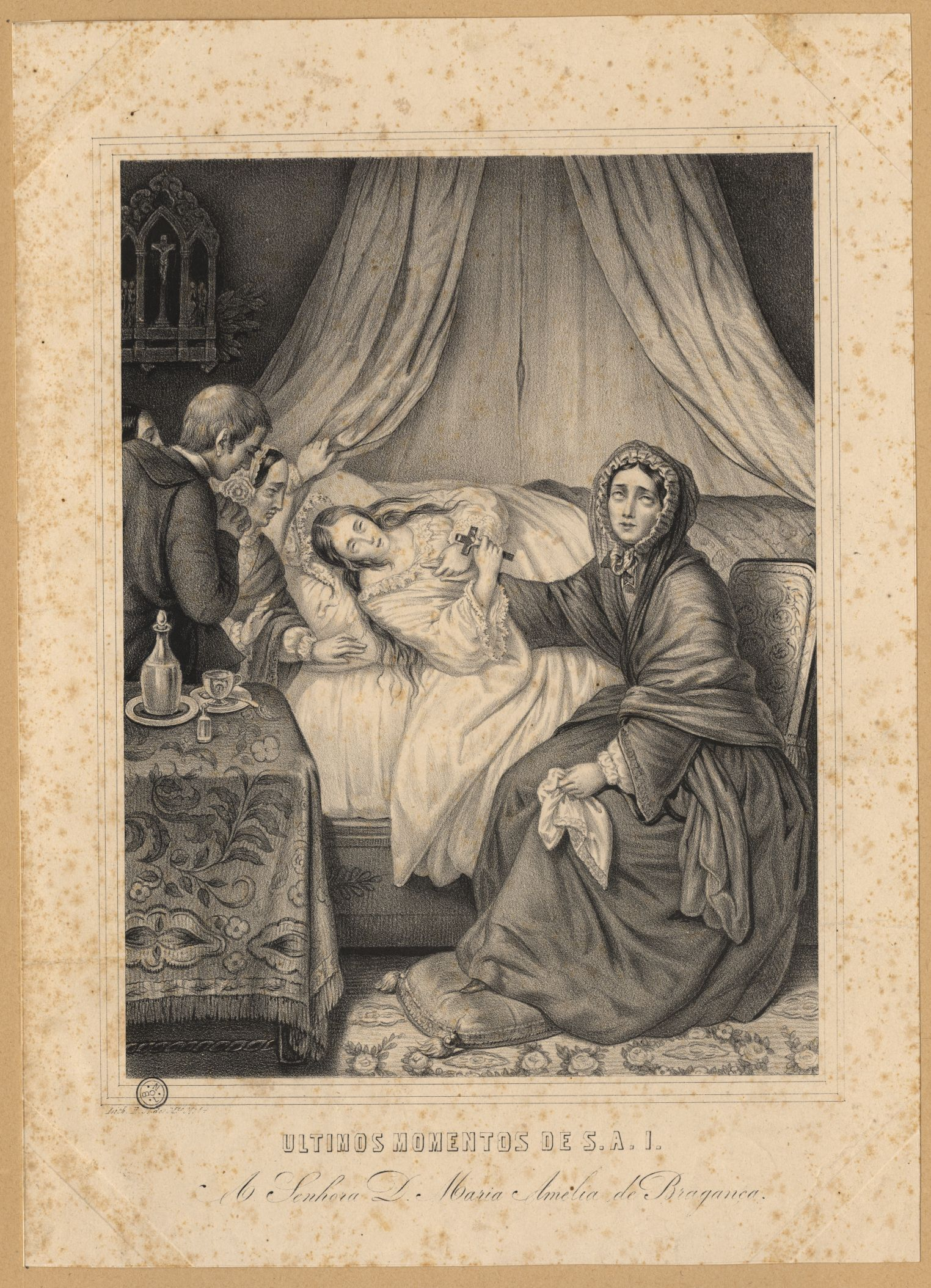 Princess Maria Amélia's last moments, 1853.